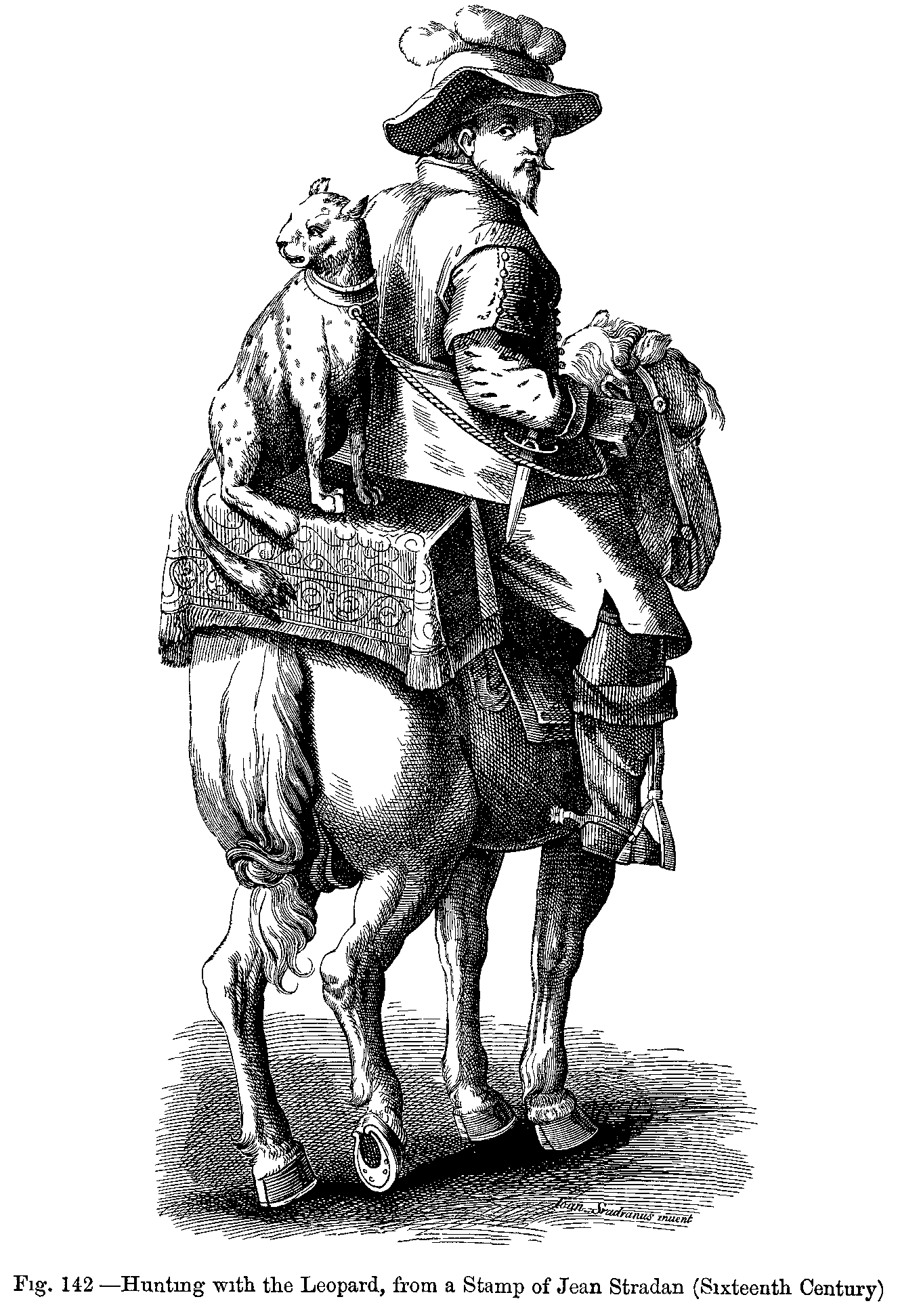 Woodcut of hunting with a leopard